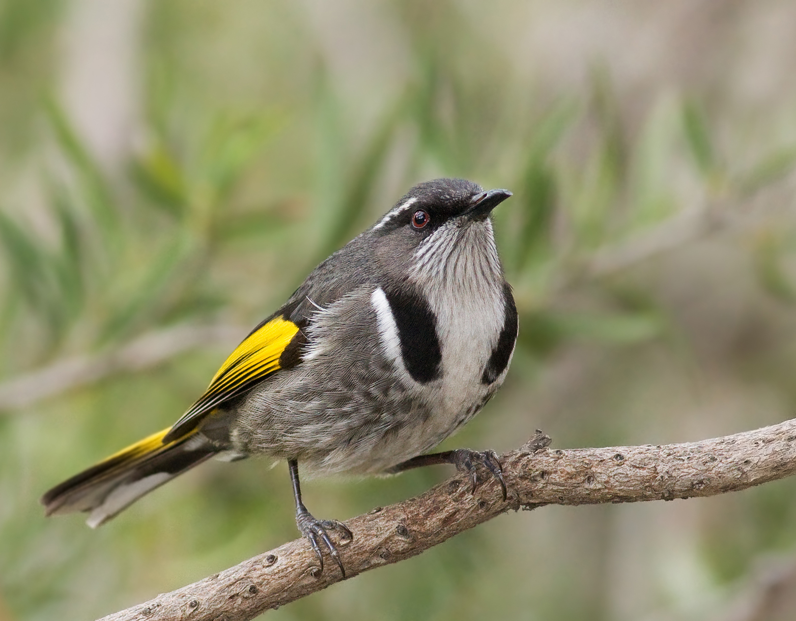 Crescent Honeyeater (Phylidonyris pyrrhopterus), Male, Royal Tasmanian Botanical Gardens, Tasmania, Australia